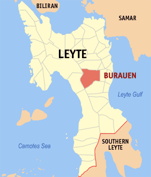 Map of Leyte showing the location of Burauen